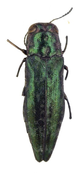 Agrilus nitidus Kerremans 1898, lectotype.